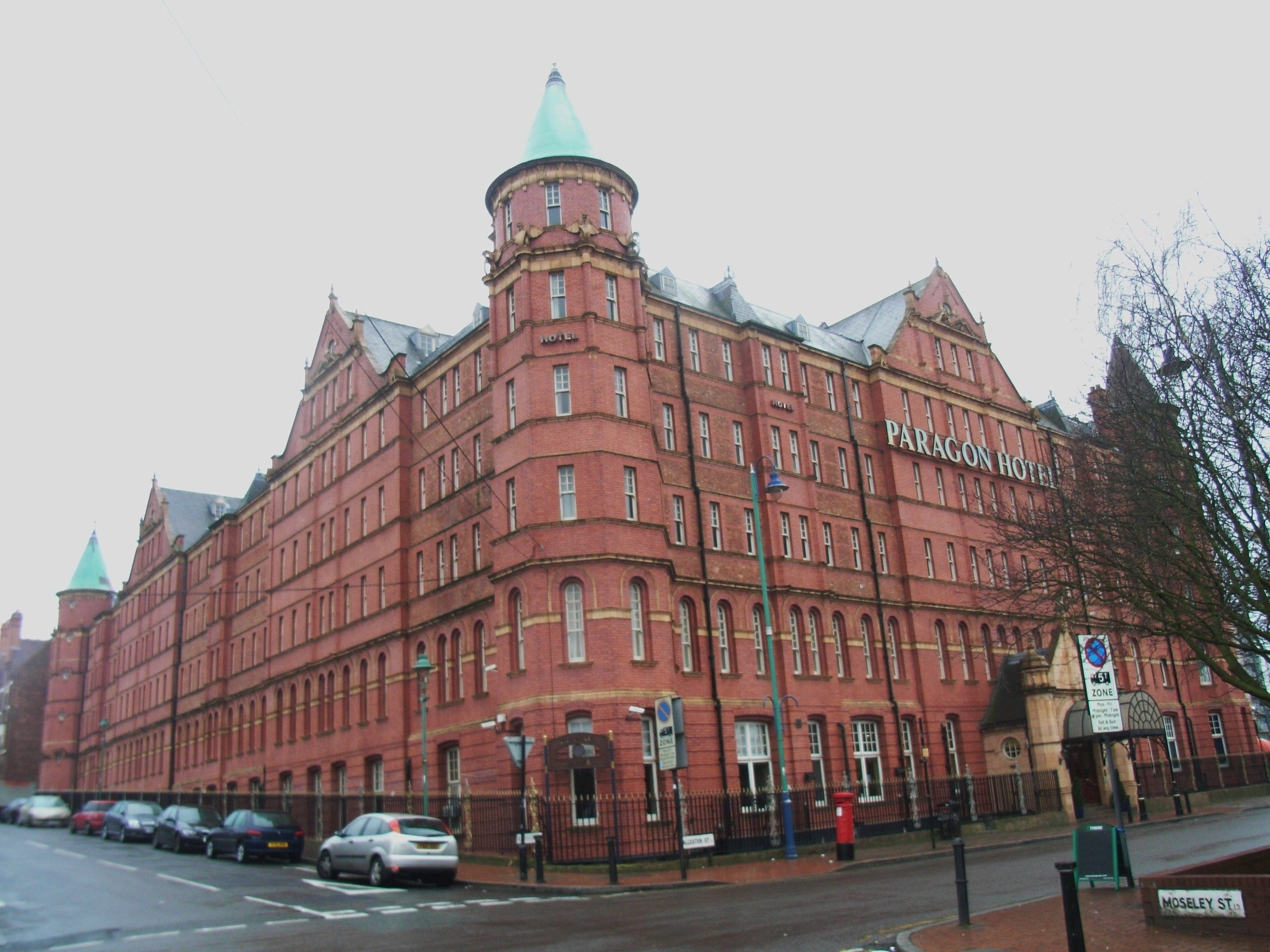 Paragon A 1902 Rawton House 20th-century architecture in Birmingham